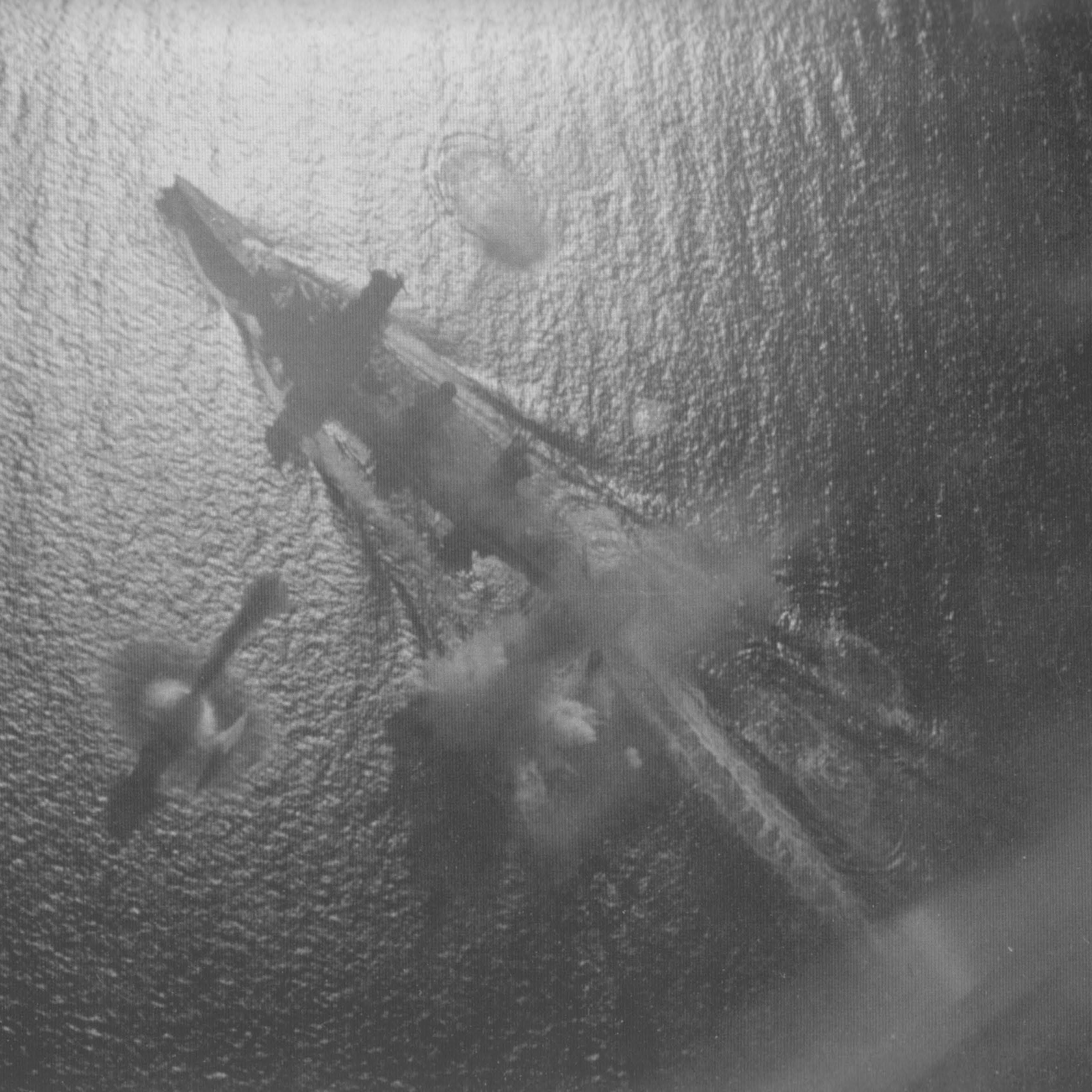 Imperial Japanese Navy battleship Yamashiro or Fusō under air attack by aircraft from the United States Navy aircraft carrier Enterprise hours before the Battle of Surigao Strait during the Battle of Leyte Gulf. Yamashiro was damaged by several near-misses during this attack. Tully states that this photo is of Yamashiro but Bruning says that it is Fusō.